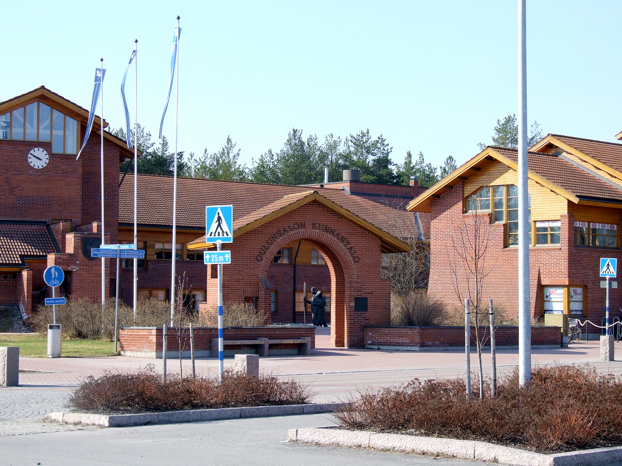 The Town hall of Oulunsalo municipality, Finland. It was designed by architect office NVV and completed in 1982.